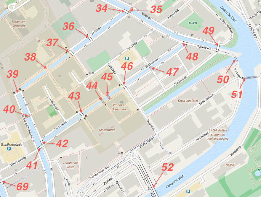 Map has bridges marked in the centre area of Delft. Map is based on Part 4 of 6.